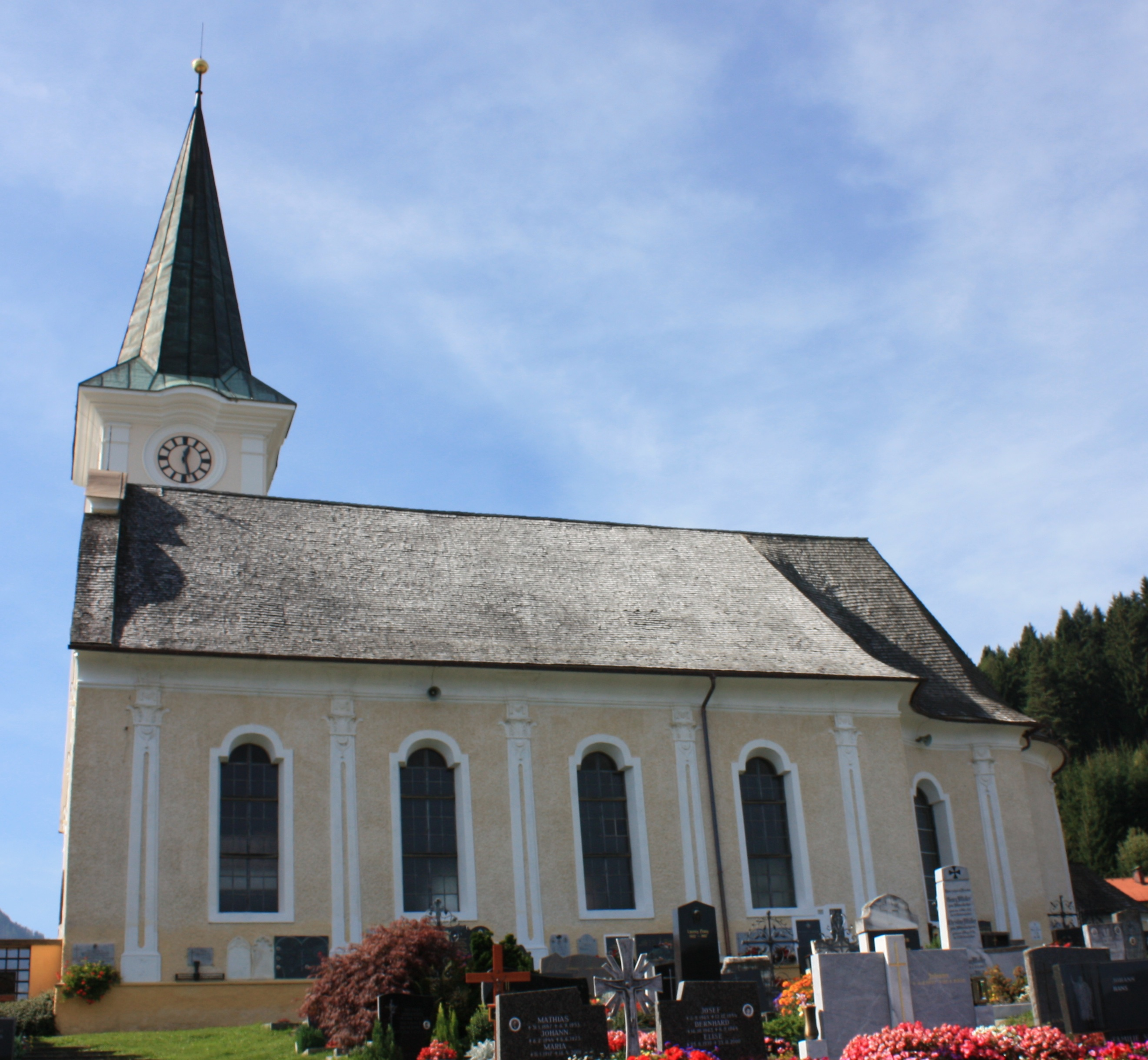 Lutherian Church Locality:Zlan Community:Stockenboi